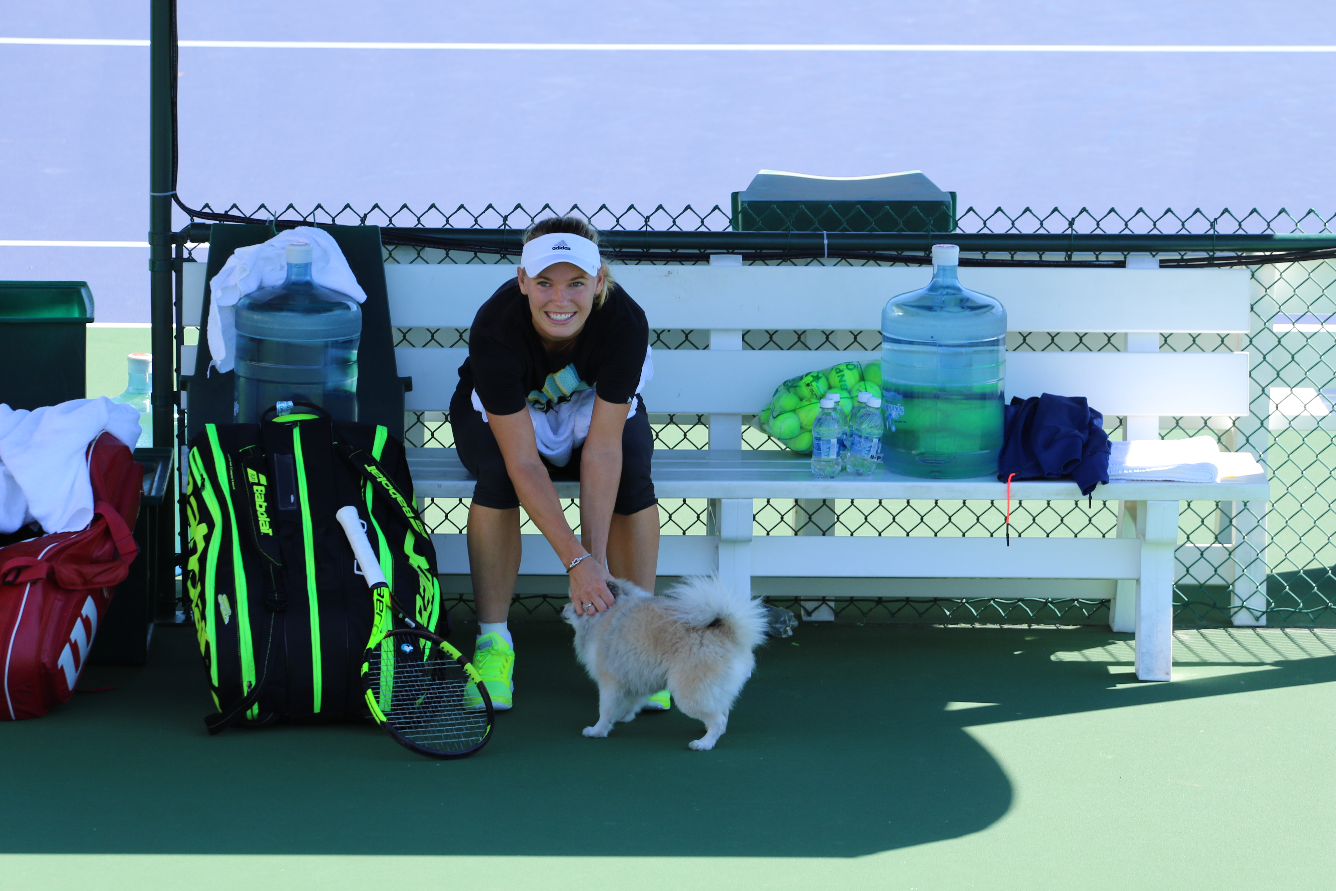 2017 BNP Paribas Open